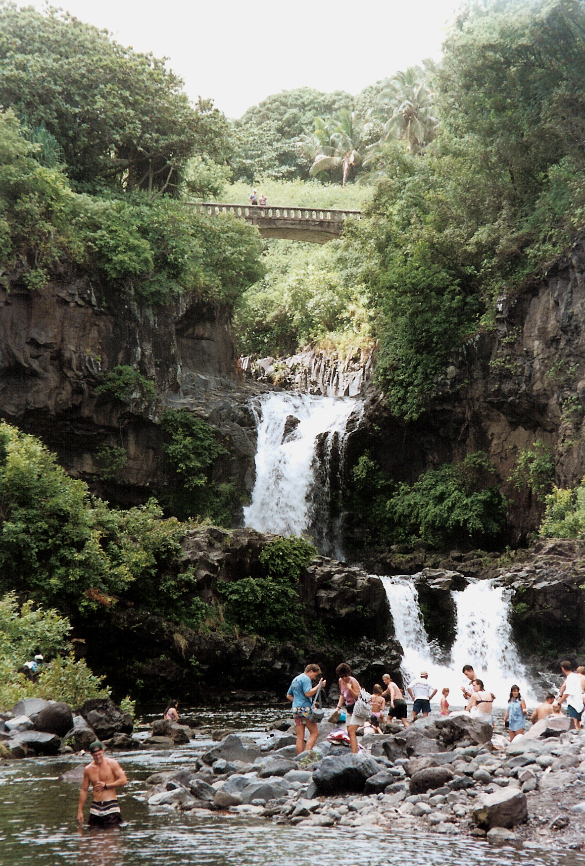 Swimmers in the pools at Kipahulu, Haleakala National Park, Maui, Hawaii, USA